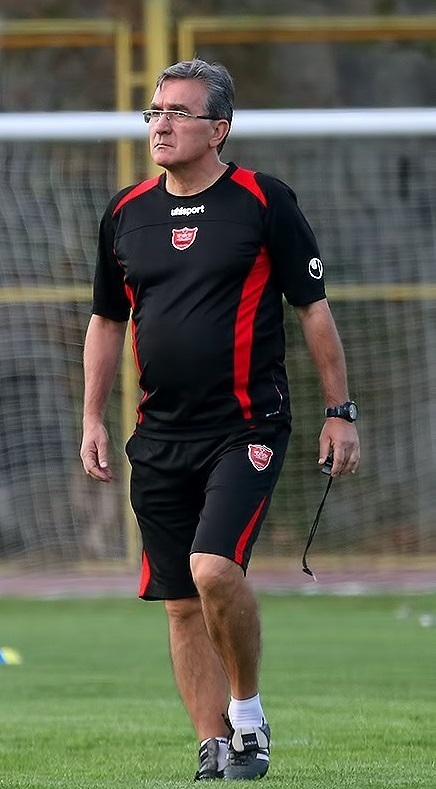 Persepolis first training after the death of Norouzi